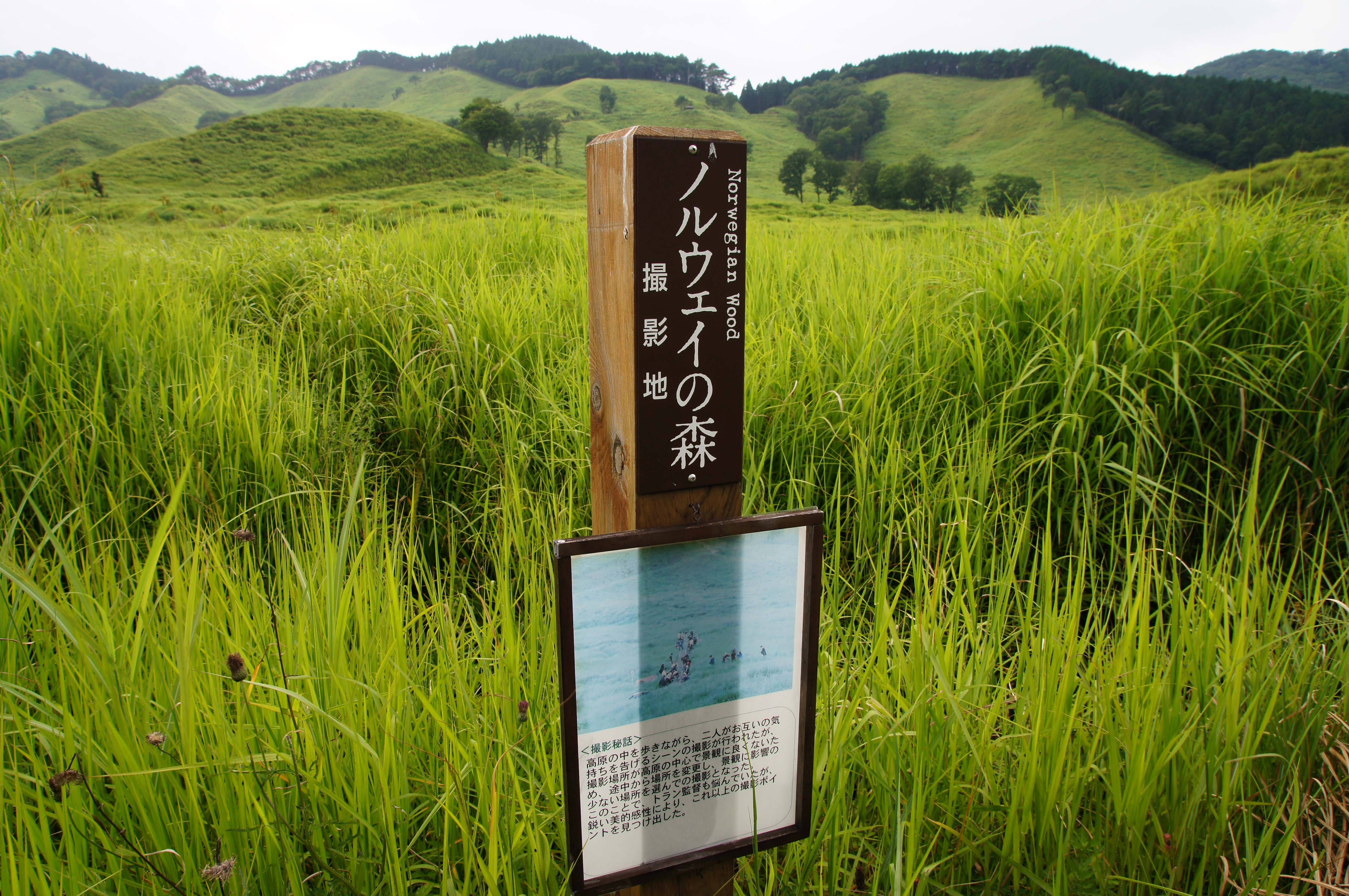 Tonomine highlands in Kamikawa, Hyogo prefecture, Japan.